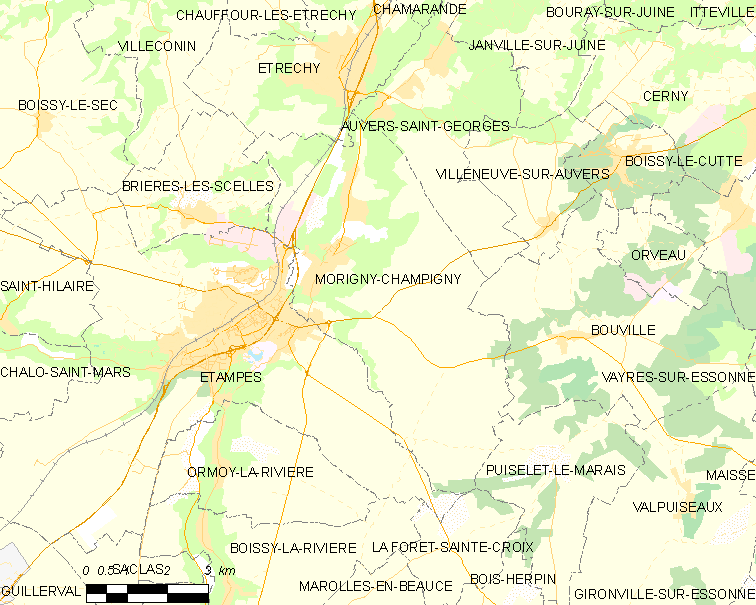 Map of French municipality Morigny-Champigny